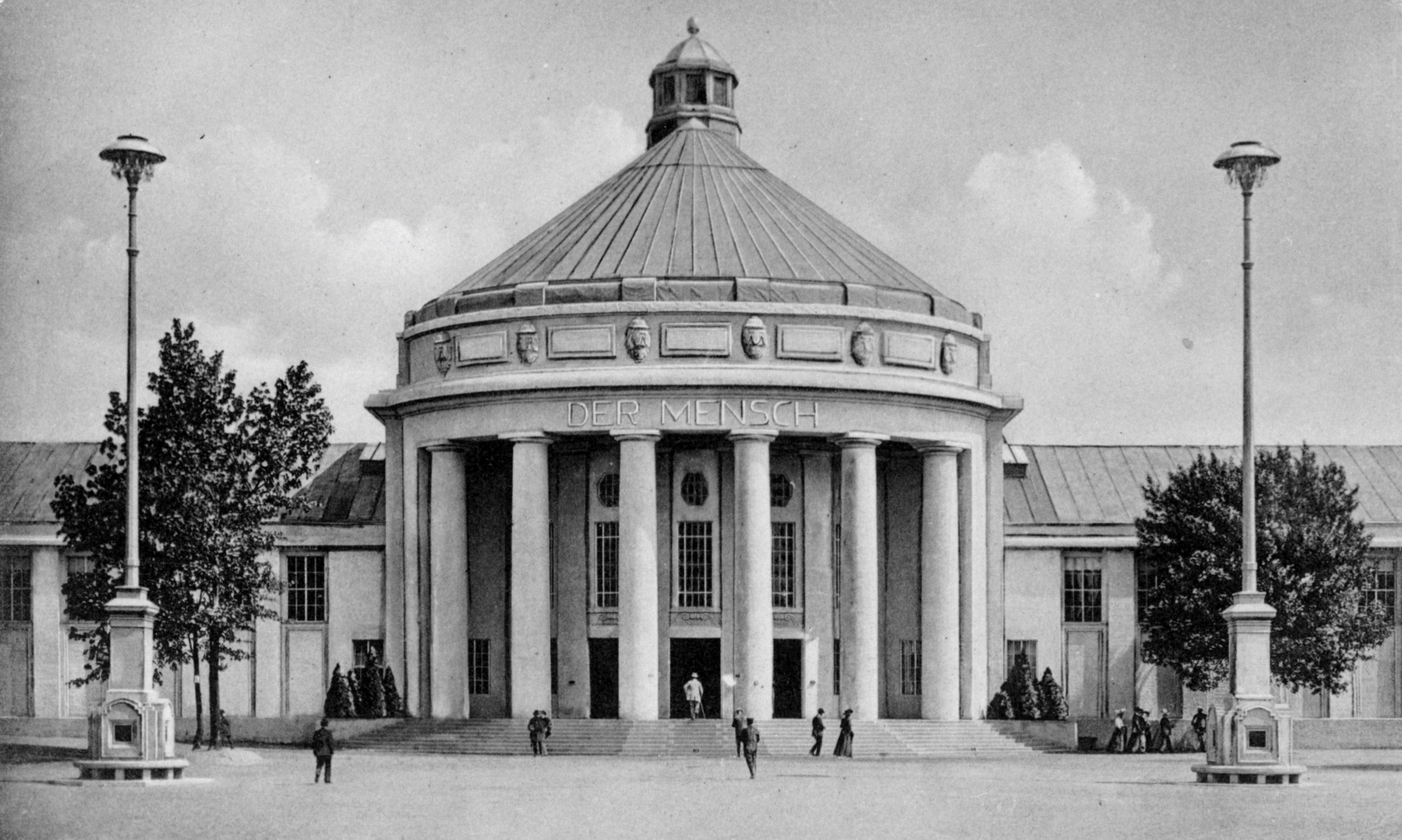 International Hygiene Exhibition Dresden 1911 (main hall, The Human Being)